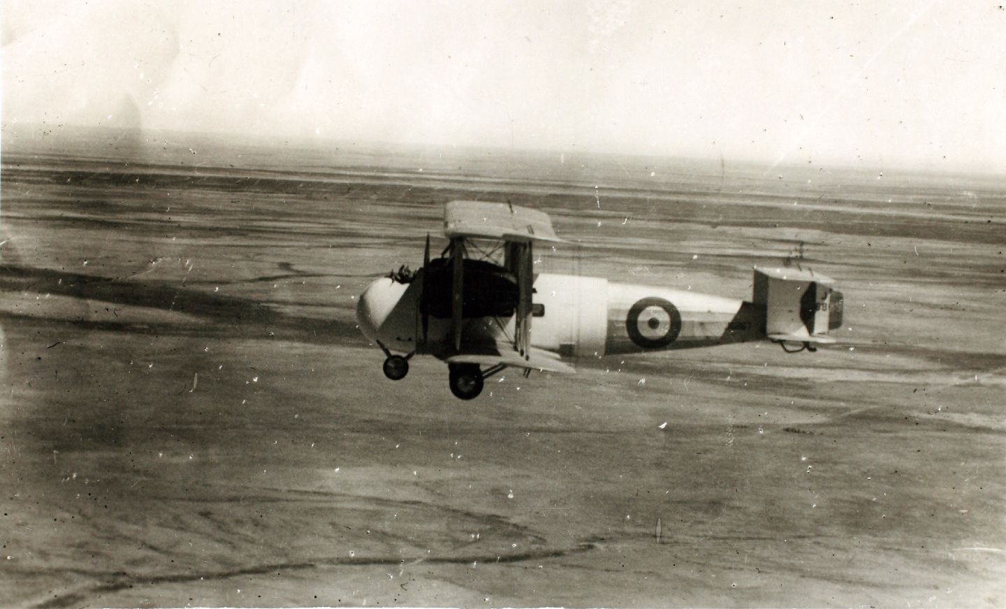 A Vickers Vernon of Royal Air Force